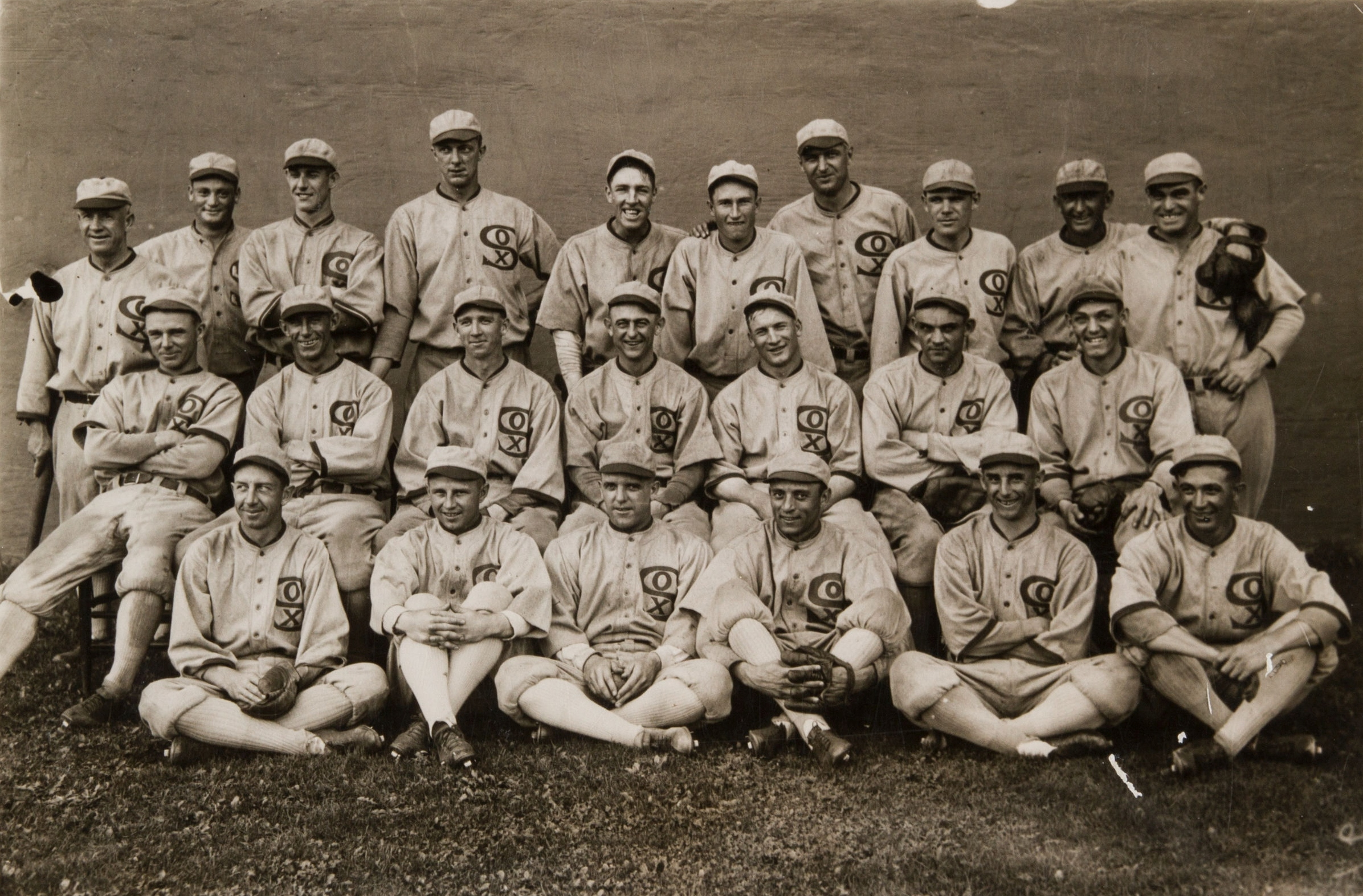 1919 Chicago White Sox Original News PhotographTop row, left to right: Kid Gleason, John Sullivan, Roy Wilkinson, Grover Lowdermilk, Swede Risberg, Fred McMullin, Bill James, Eddie Murphy, Shoeless Joe Jackson, Joe JenkinsMiddle row, left to right: Ray Schalk, Shano Collins, Red Faber, Dickey Kerr, Happy Felsch, Chick Gandil, Buck WeaverBottom row, left to right: Eddie Collins, Nemo Leibold, Eddie Cicotte, Erskine Mayer, Lefty Williams, Byrd Lynn